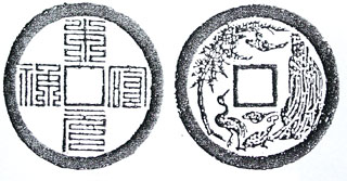 A rubbing of a nine-fold seal script Chinese numismatic charm.